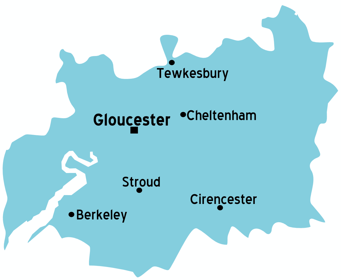 Map of Gloucestershire Source: :Image:UK map.svg map: England Map of: England